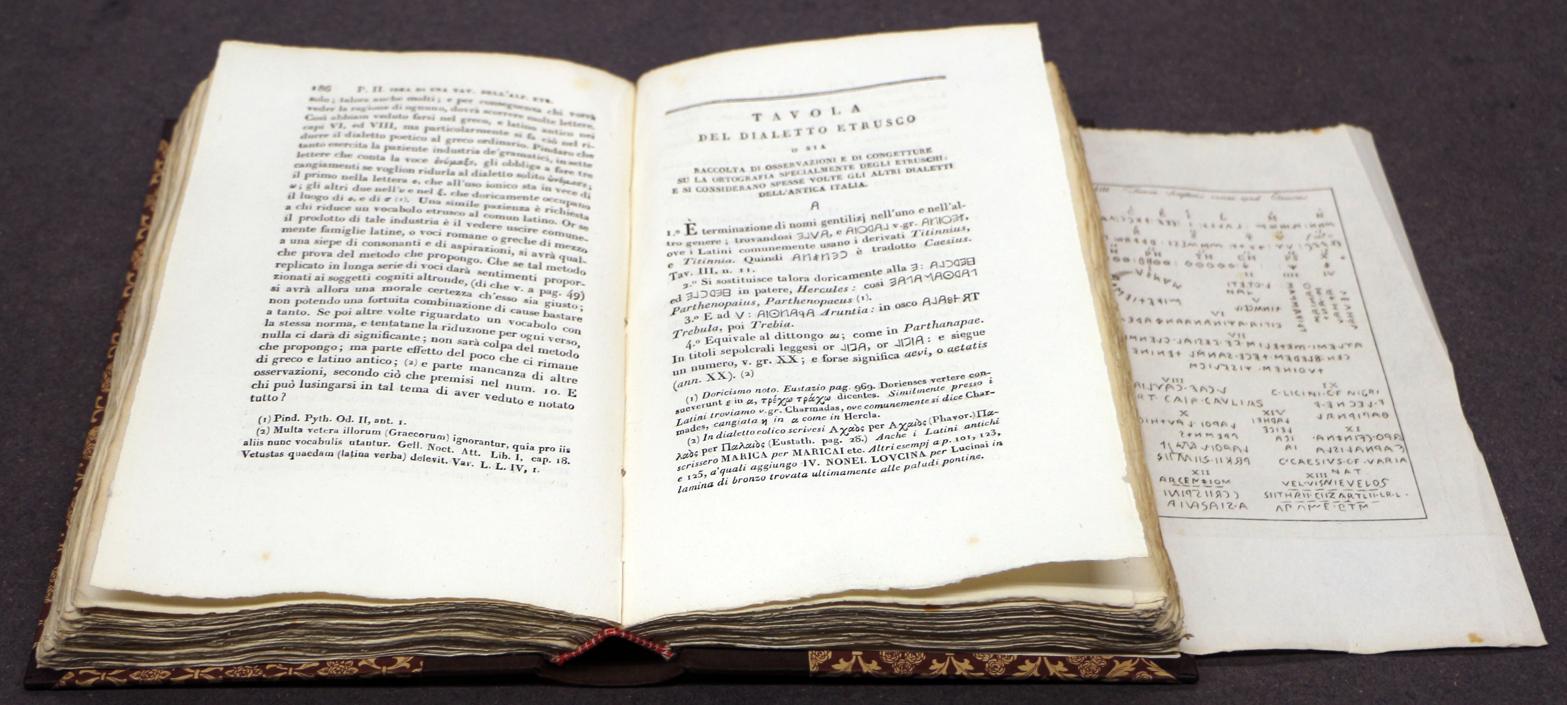 Winckelmann, Firenze e gli Etruschi (2016 exhibition)